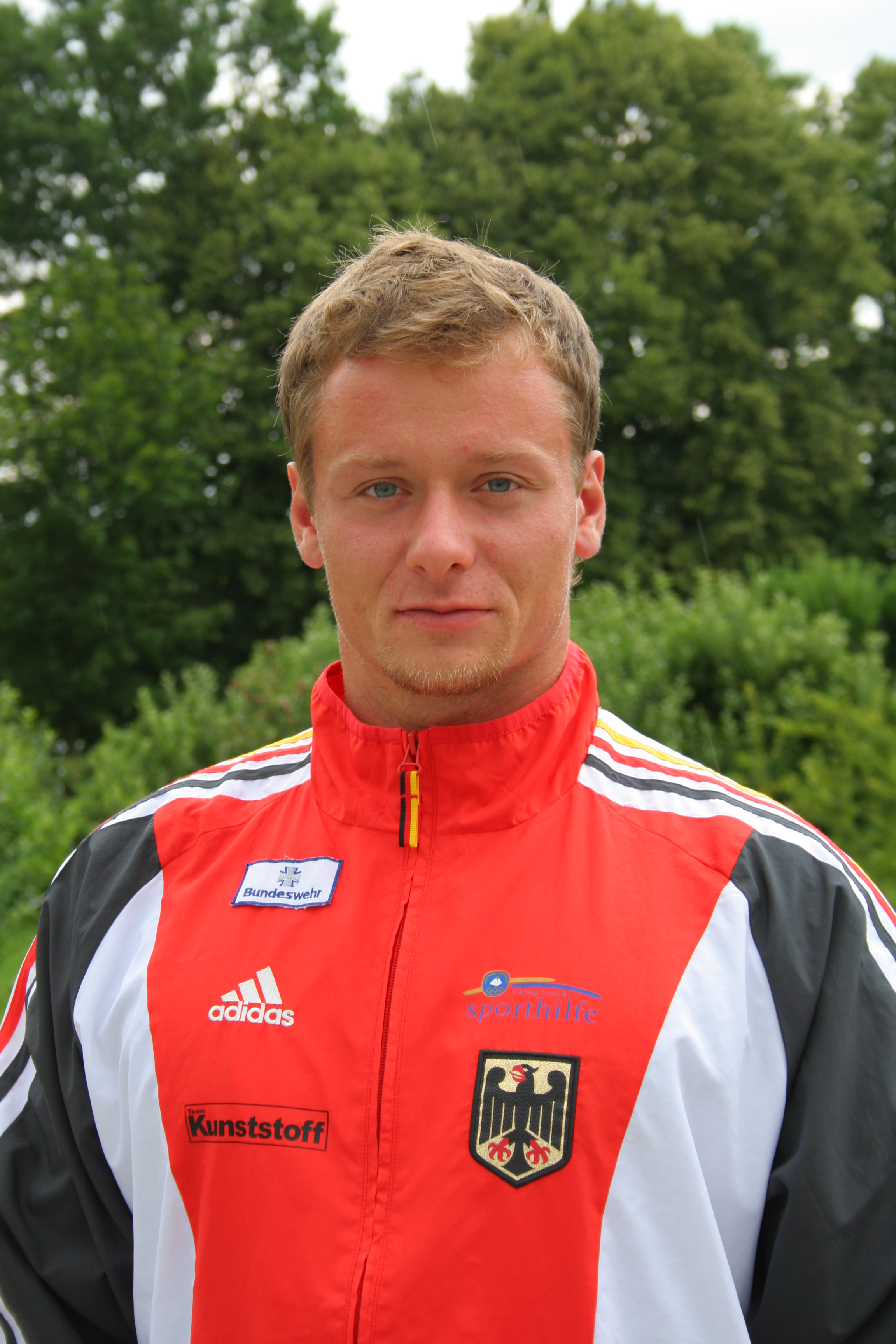 Robert Nuck World Champion Canoe Sprint